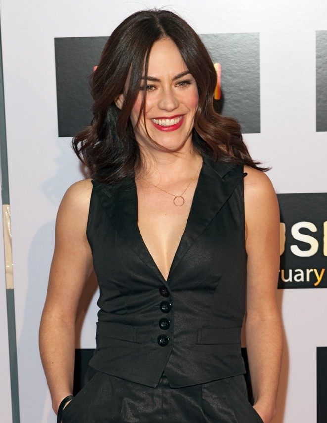 American actress Maggie Siff arrives at the premiere of Push, Mann Theater, Westwood.